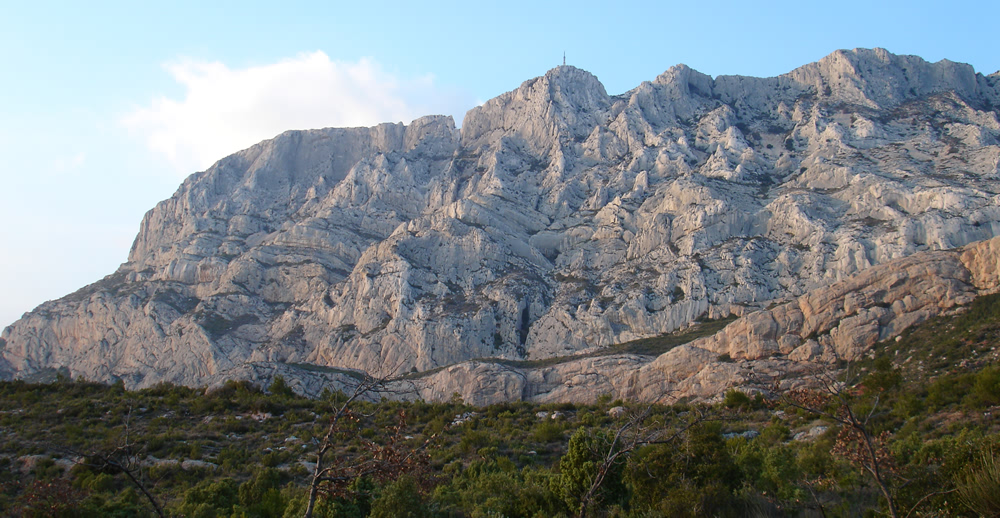 Montagne Sainte-Victoire (Mount Saint-Victory, summit 1,011 metres) near Aix-en-Provence in Bouches-du-Rhône, France with the 19-metre Croix de Provence (Cross of Provence) built on a a 946-metre point on the mountain, below the summit. Photographed with a Sony Cybershot DSC-P150, 7.2 megapixels